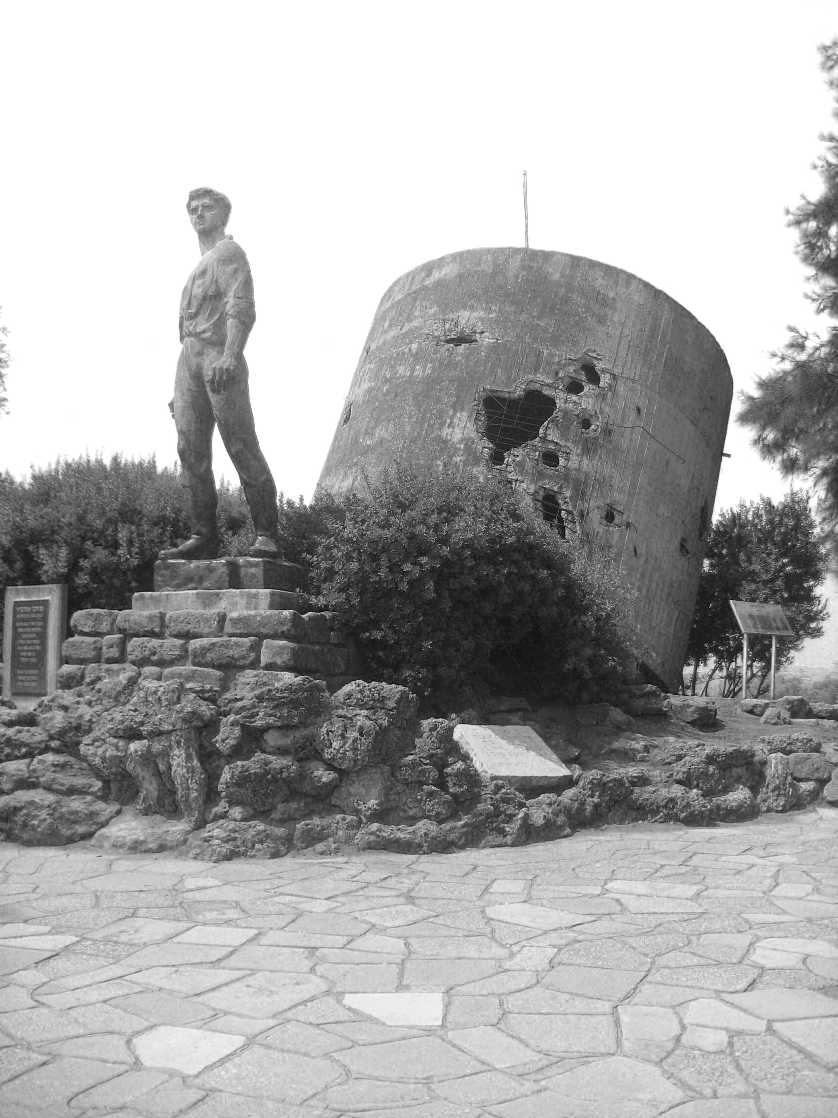 Geography of Israel